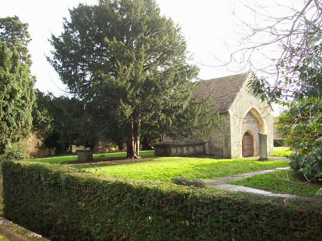 Holy Rood church, Swindon All that remains of the original church is the chancel, now occasionally used as a chapel. Holy Rood, first recorded in 1154, served the small, pre-railway hilltop town of Swindon. By the 1840s it was clear Holy Rood was inadequate for the growing population, and Sir George Gilbert Scott's Christ Church was dedicated in 1851. In 1852 Holy Rood was demolished, apart from the chancel and a few pillars. Holy Rood is located on The Lawn, a public park once property of the landowning Goddard family. The Goddard tomb is between chapel and tree.